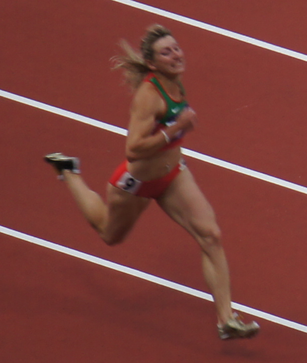 Yuliya Balykina competing at the 2012 Summer Olympics